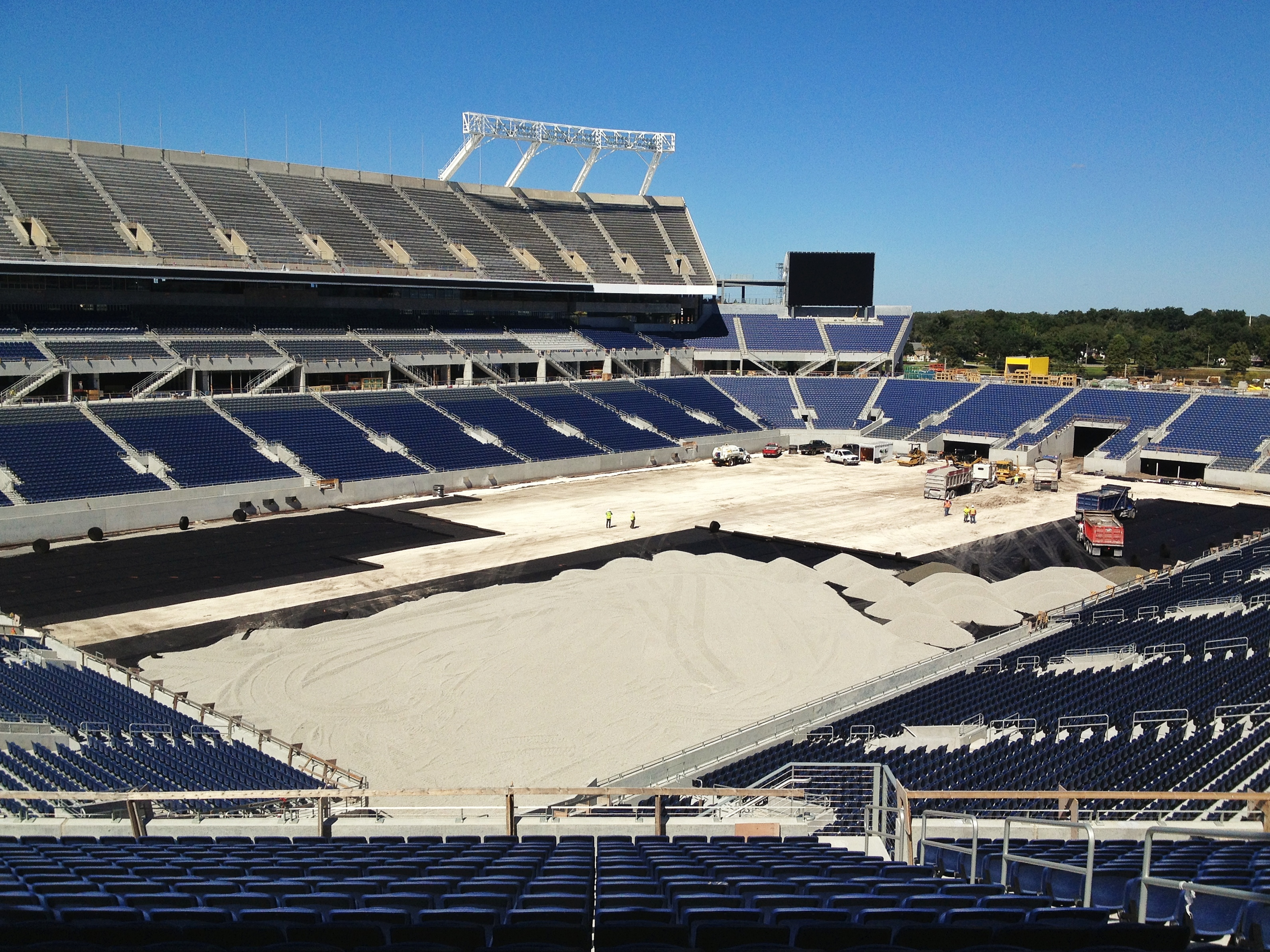 Construction progress